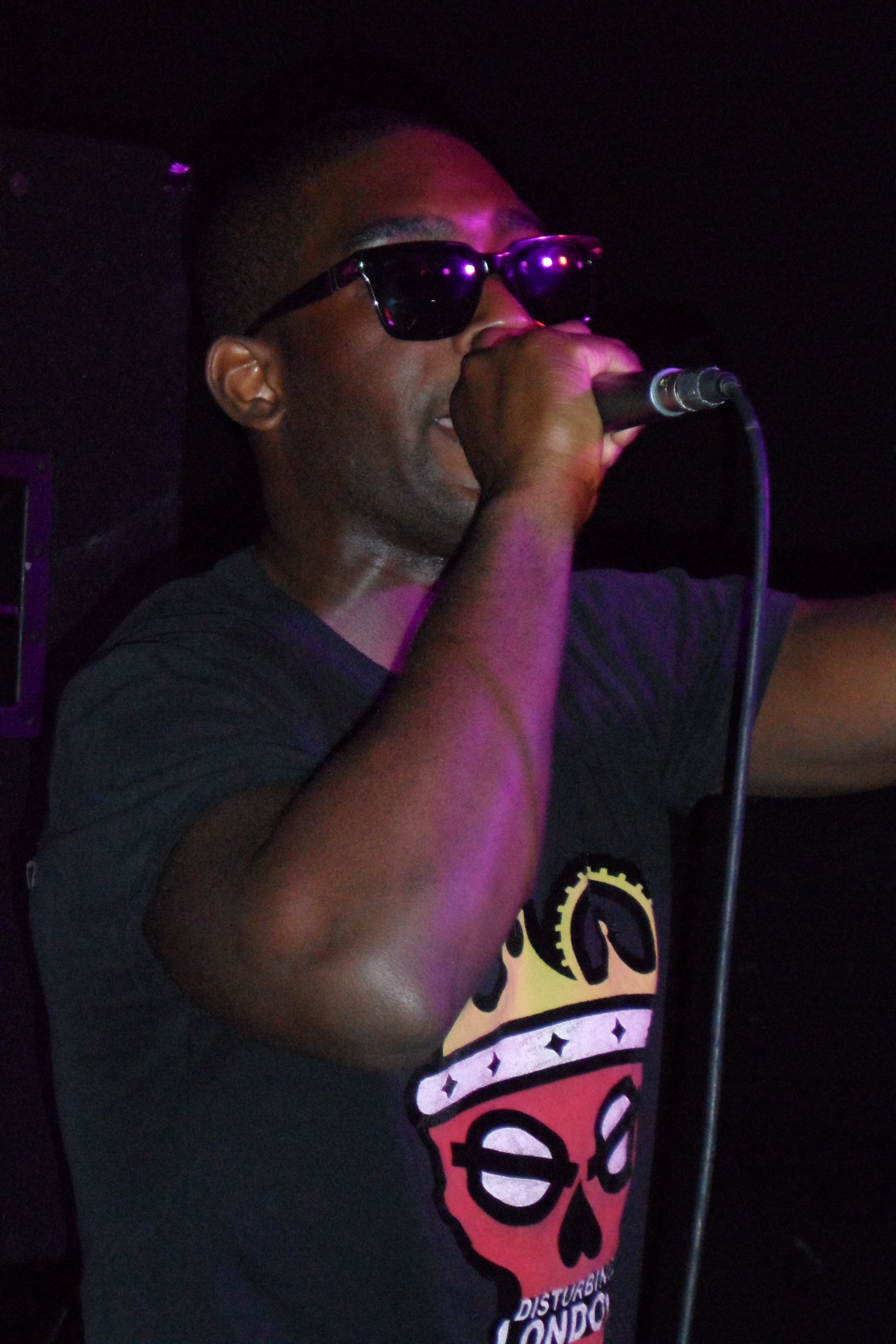 Tinie Tempah performing at Wrongbar, Toronto in May 2011.